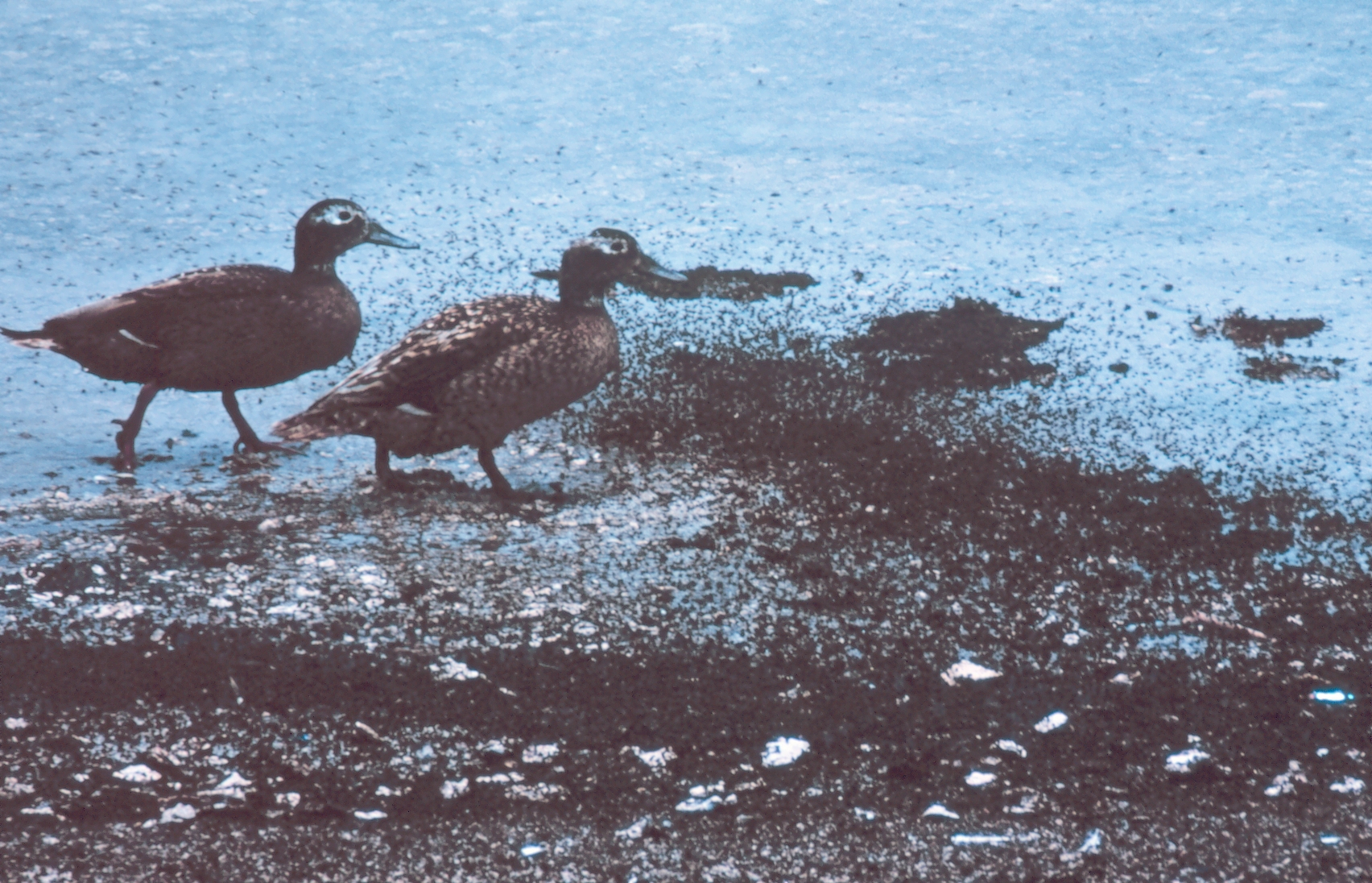 Laysan Ducks waddling through their dinner of Laysan flies